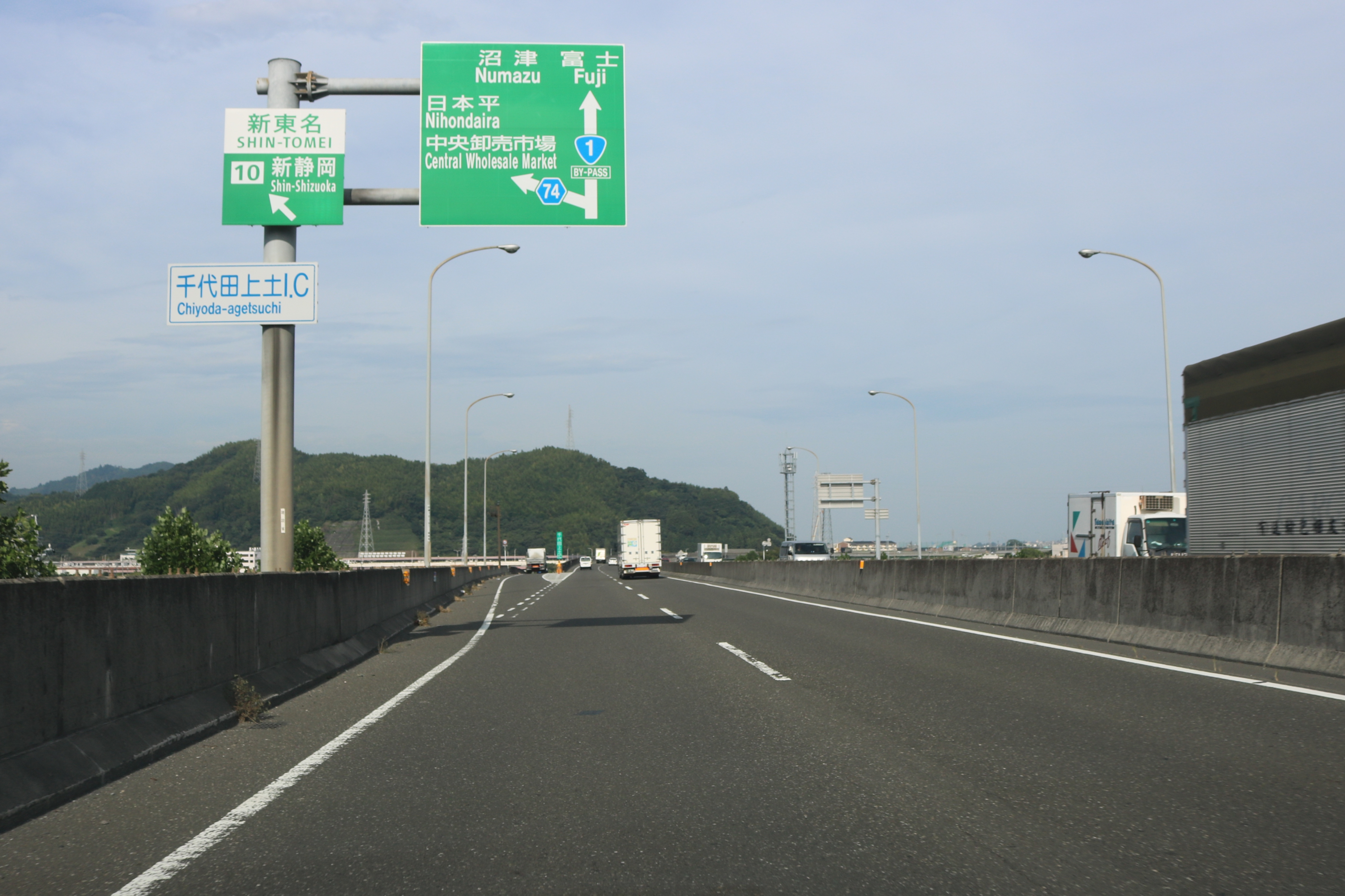 Chiyoda-agetsuchi Interchange of Seishin Bypass (Route 1) in Tateishi, Aoi-ku, Shizuoka City, Shizuoka Prefecture, Japan.